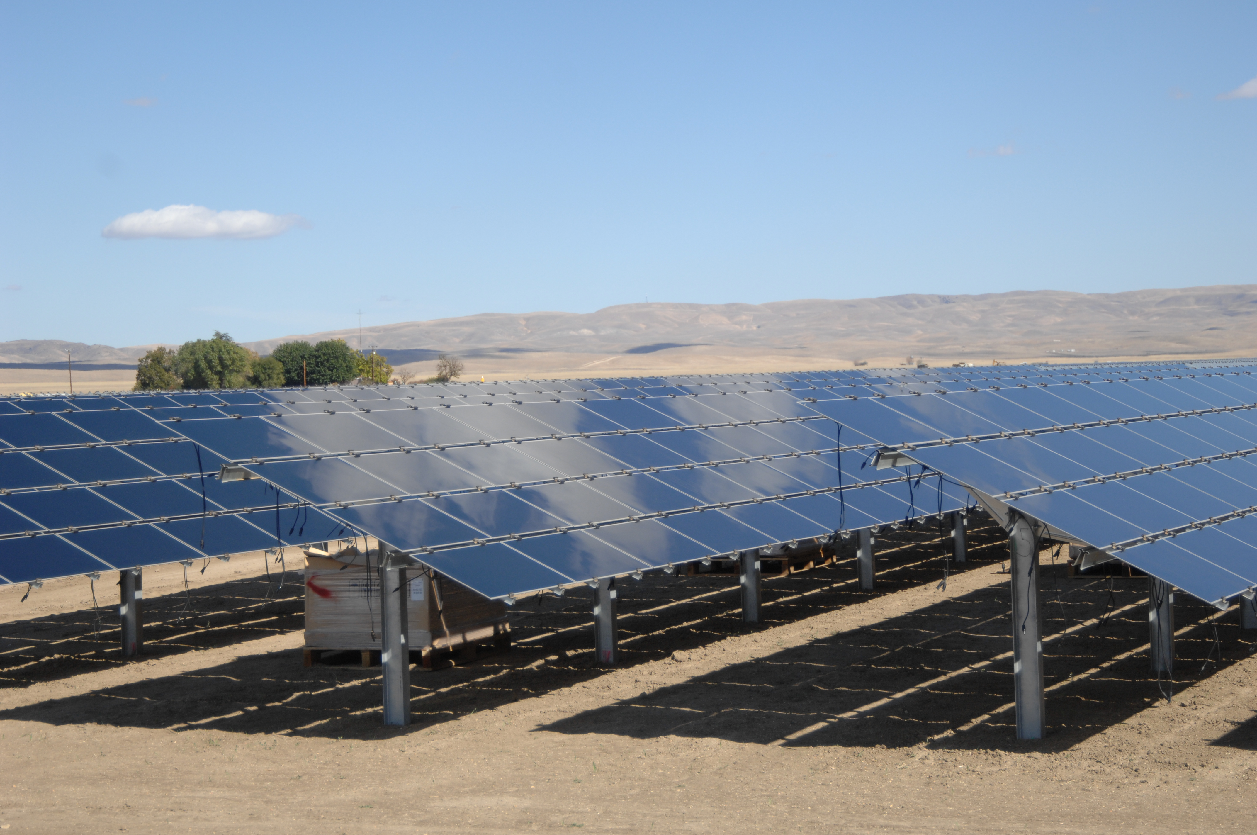 Photo Credit: Sarah Swenty/USFWS